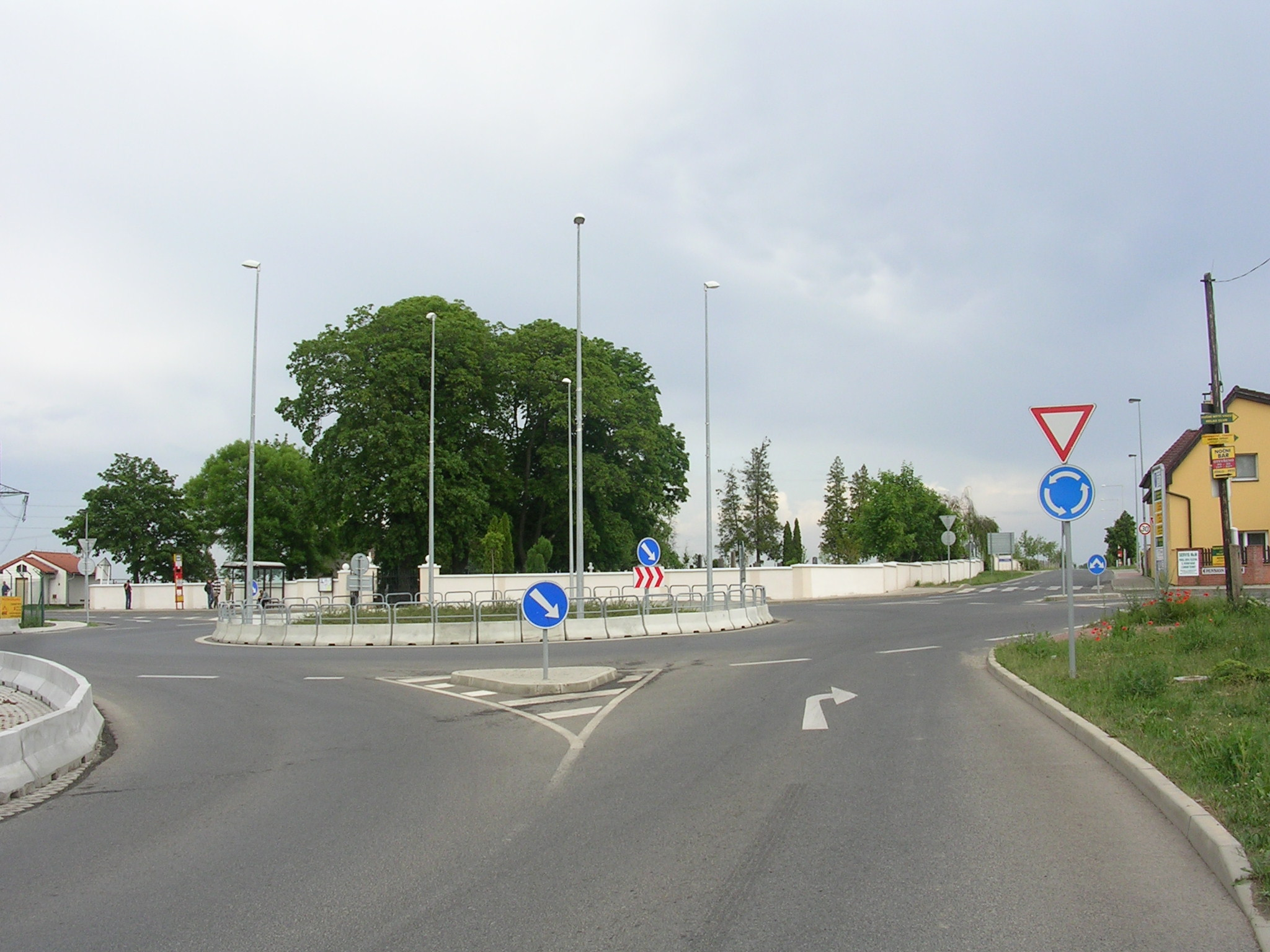 Šeberov, Hrnčíře. Prague, the Czech Republic.